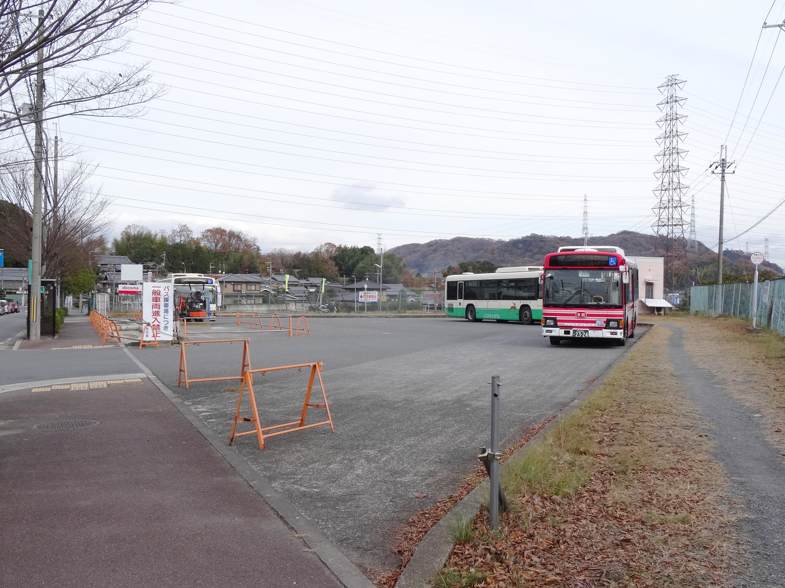 Tawaradai 1chome